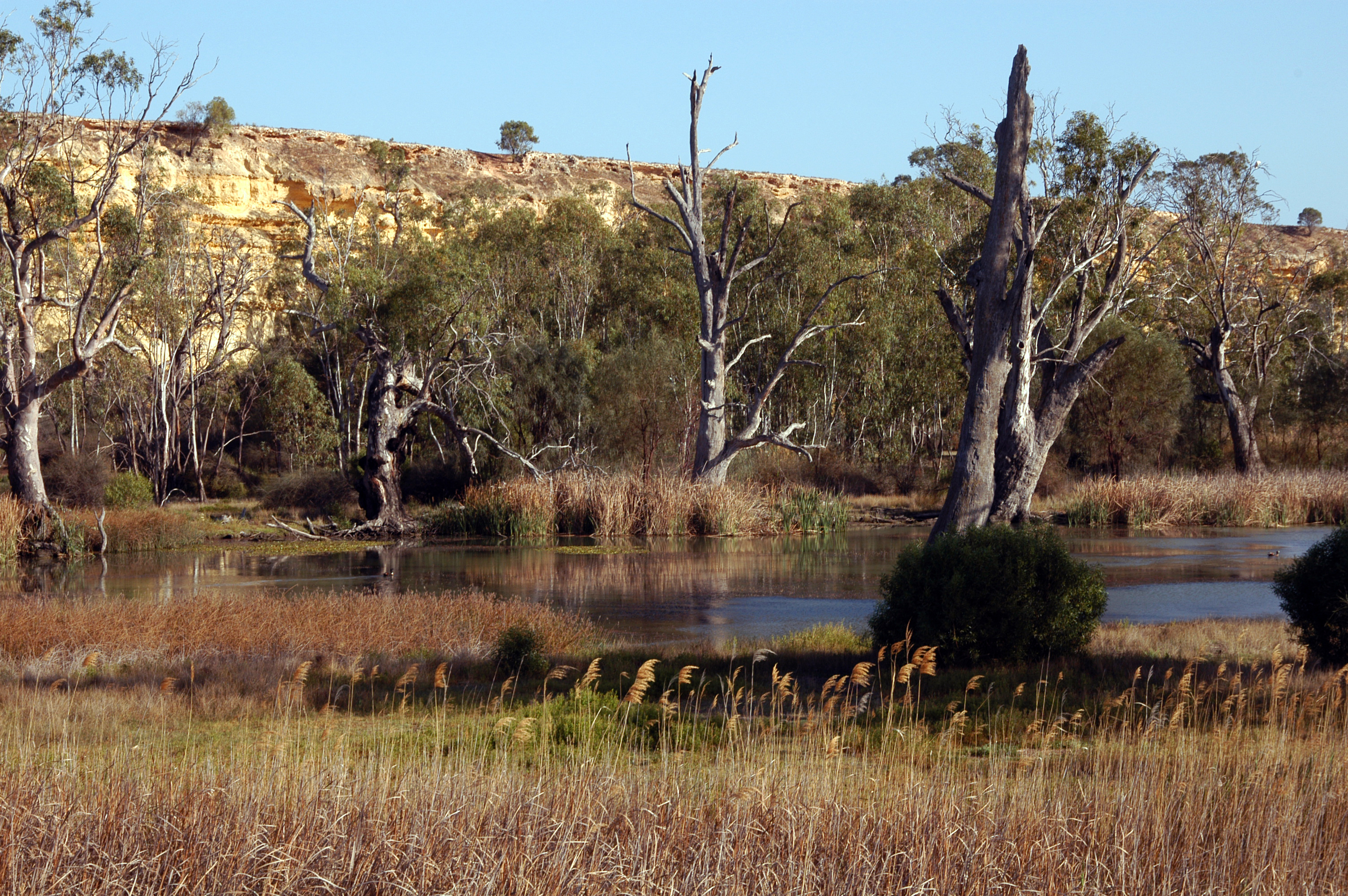 Backwaters of the River Murray above Lock 1 at Murbpook Lagoon, SA. September 2007